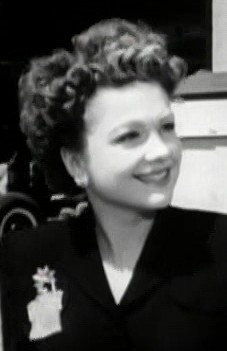 Cropped screenshot of Anne Baxter from the trailer for the film Miracle on 34th Street. (Anne Baxter did not appear in the film, however she was one of several celebrities "interviewed" to provide an endorsement for the film as part of its marketing, along with Peggy Ann Garner, Rex Harrison and Dick Haymes).